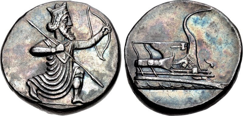 PERSIA, Achaemenid Empire. temp. Artaxerxes III to Darios III. Circa 350-333 BC. AR Tetradrachm (24.5mm, 15.13 g, 8h). Chian standard. Halikarnassos mint(?). Persian king, wearing kidaris and kandys, in kneeling-running stance right, holding spear in right hand, bow in left / Prow of galley right, with hornlike akrostolion, fighting platform decorated with labrys, proembolon (upper battering ram) decorated with dolphin and an embolom (principal three pronged battering ram); wave pattern below; to right, small dolphin diagonally downward right.